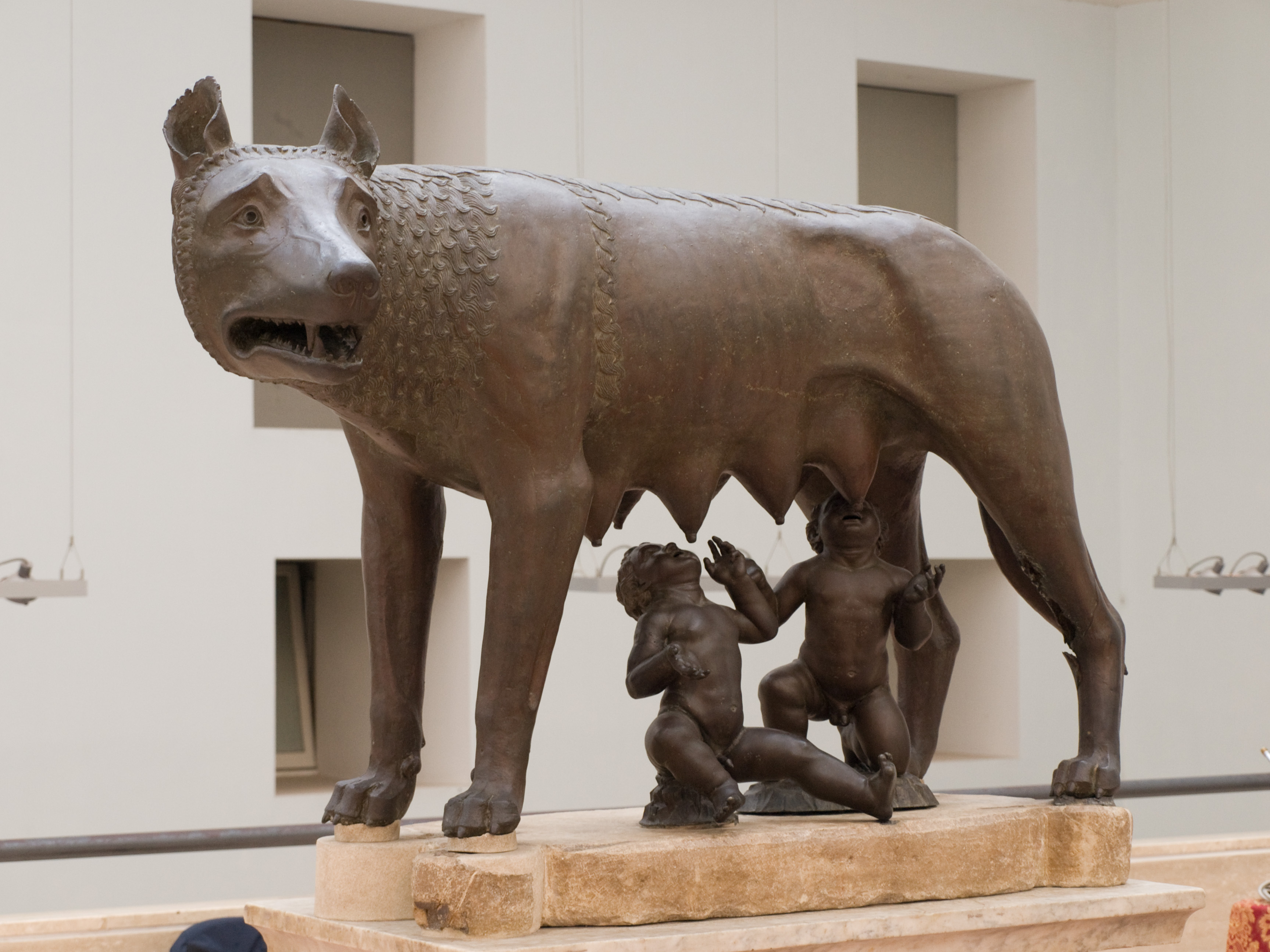 Capitoline she-wolf, Roma